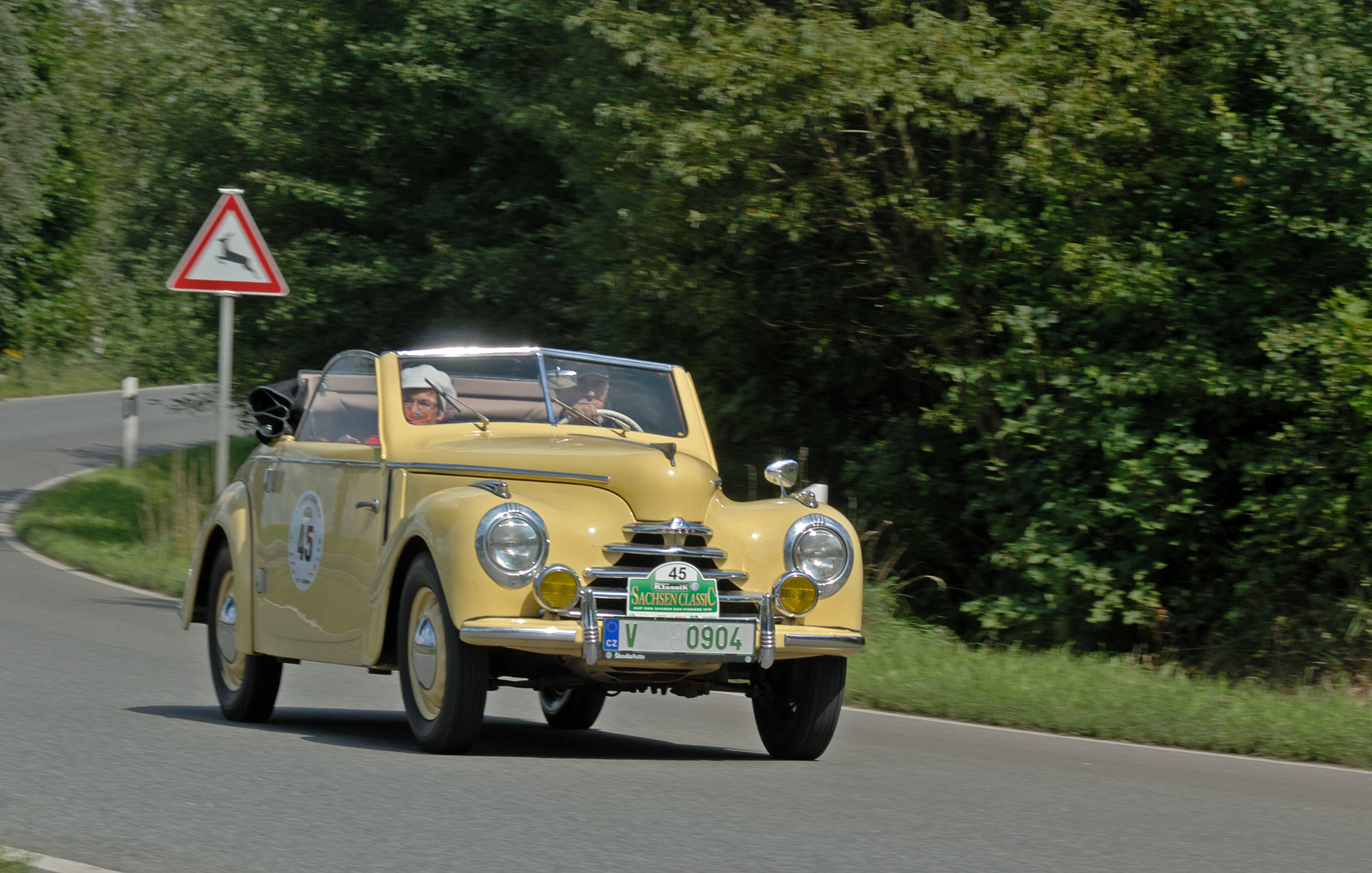 Skoda Tudor 1102 from 1948 during the Saxony Classic Rallye 2010